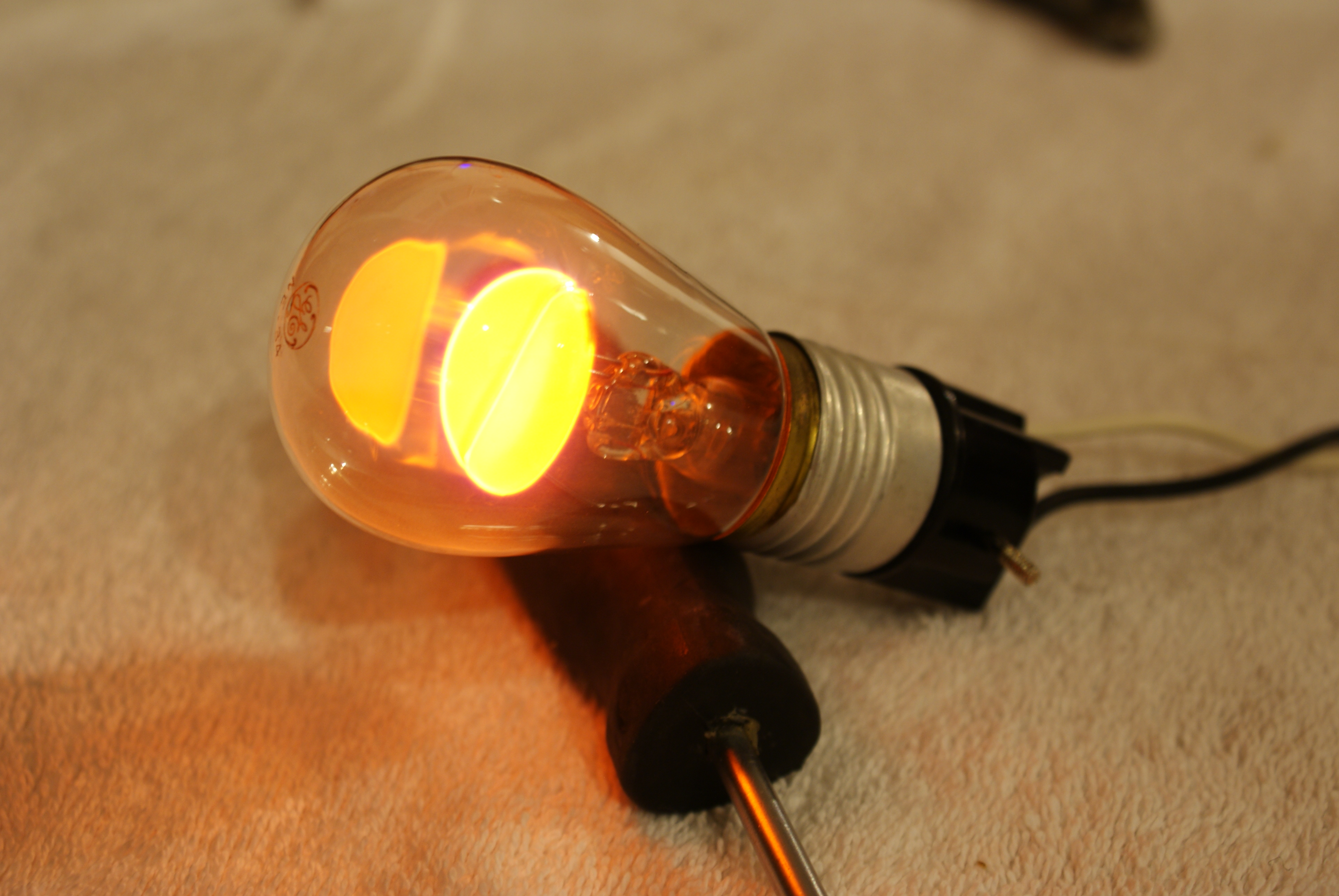 Ne-34